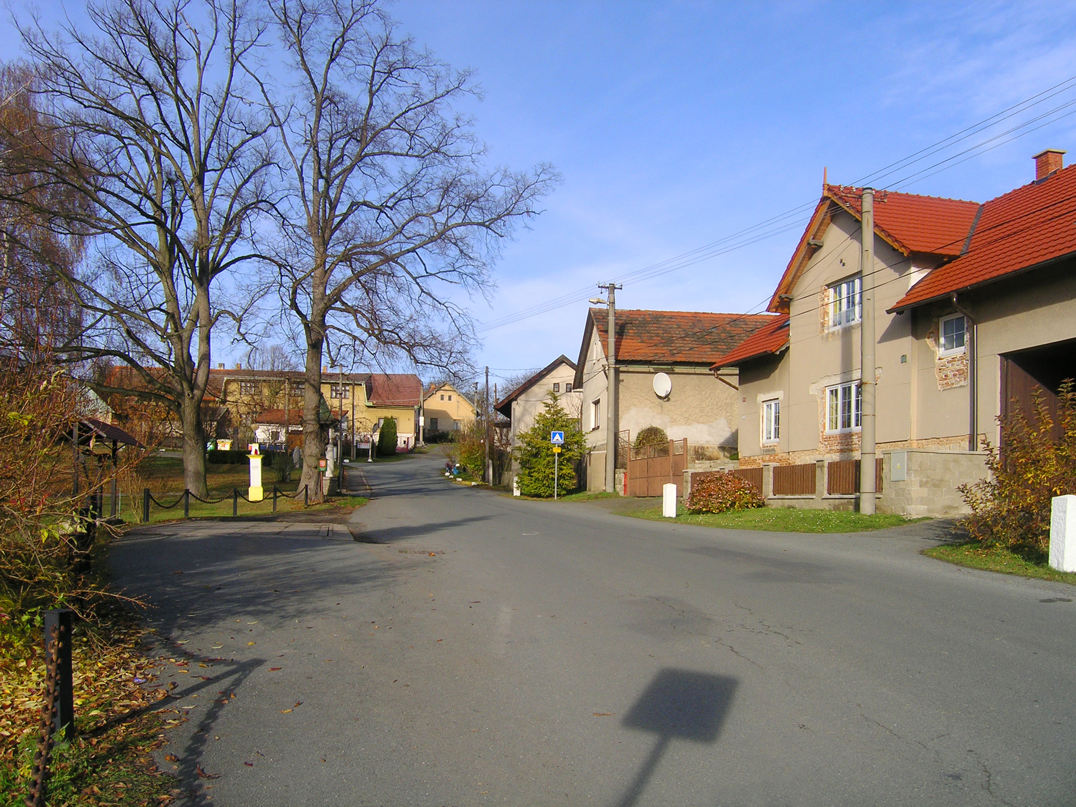 Common in Klokočná, Czech Republic